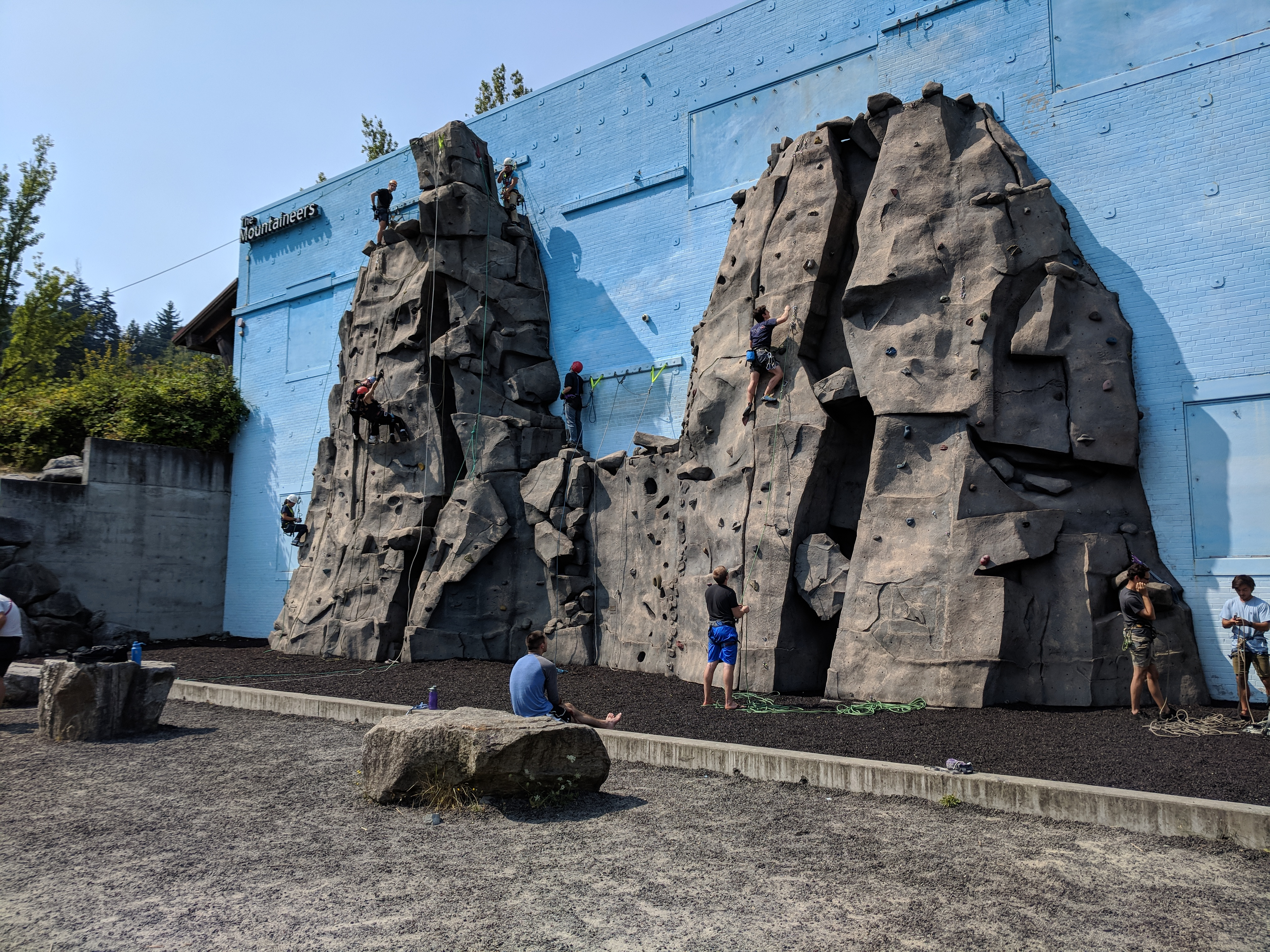 The climbing wall outside at the Seattle headquarters of The Mountaineers